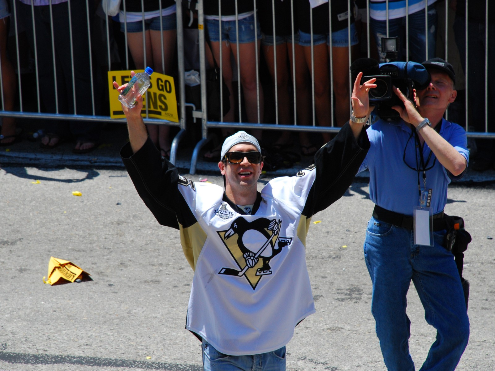 Max Talbot during 2009 Stanley Cup parade in Pittsburgh PA. Taken with Nikon D80, 18-135 lens, croped and uploaded.